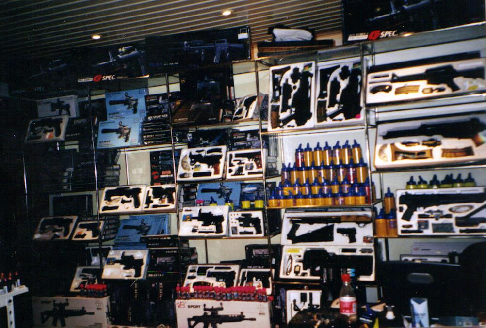 A weapon shop full of Airsoft guns in Rovinj, Croatia